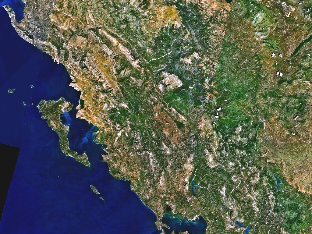 Landsat 7 image of Epirus